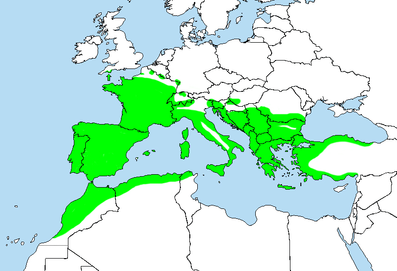 Emberiza cirlus distribution map